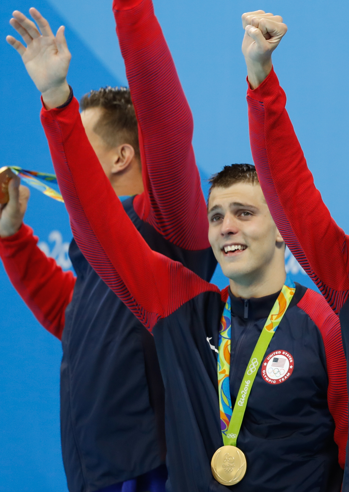 Rio de Janeiro - Estados Unidos vence o revezamento 4 x 100m nado livre nos Jogos Olímpicos Rio 2016, no Estádio Aquático.